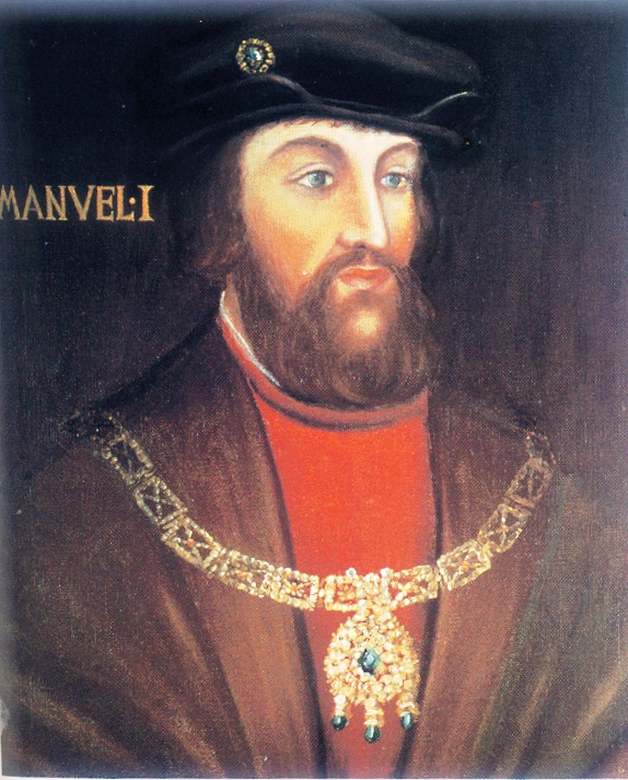 King Manuel I of Portugal (1469-1521)